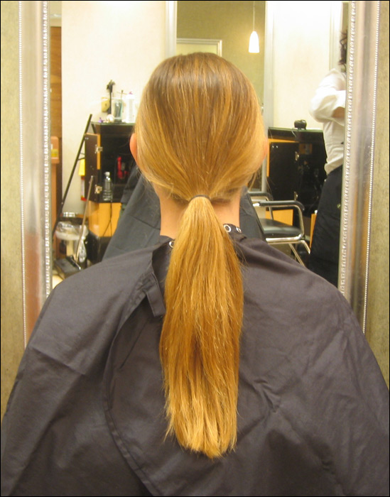 To be used as an example of a woman with a ponytail. Original FlickR description "julie donated her hair to wigs for cancer patients.".